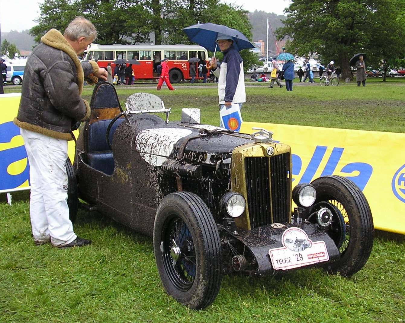 A 1932 M.G. D-Type Midget Racer S. Photographed by myself at Prins Bertil Memorial in Stockholm, Sweden.